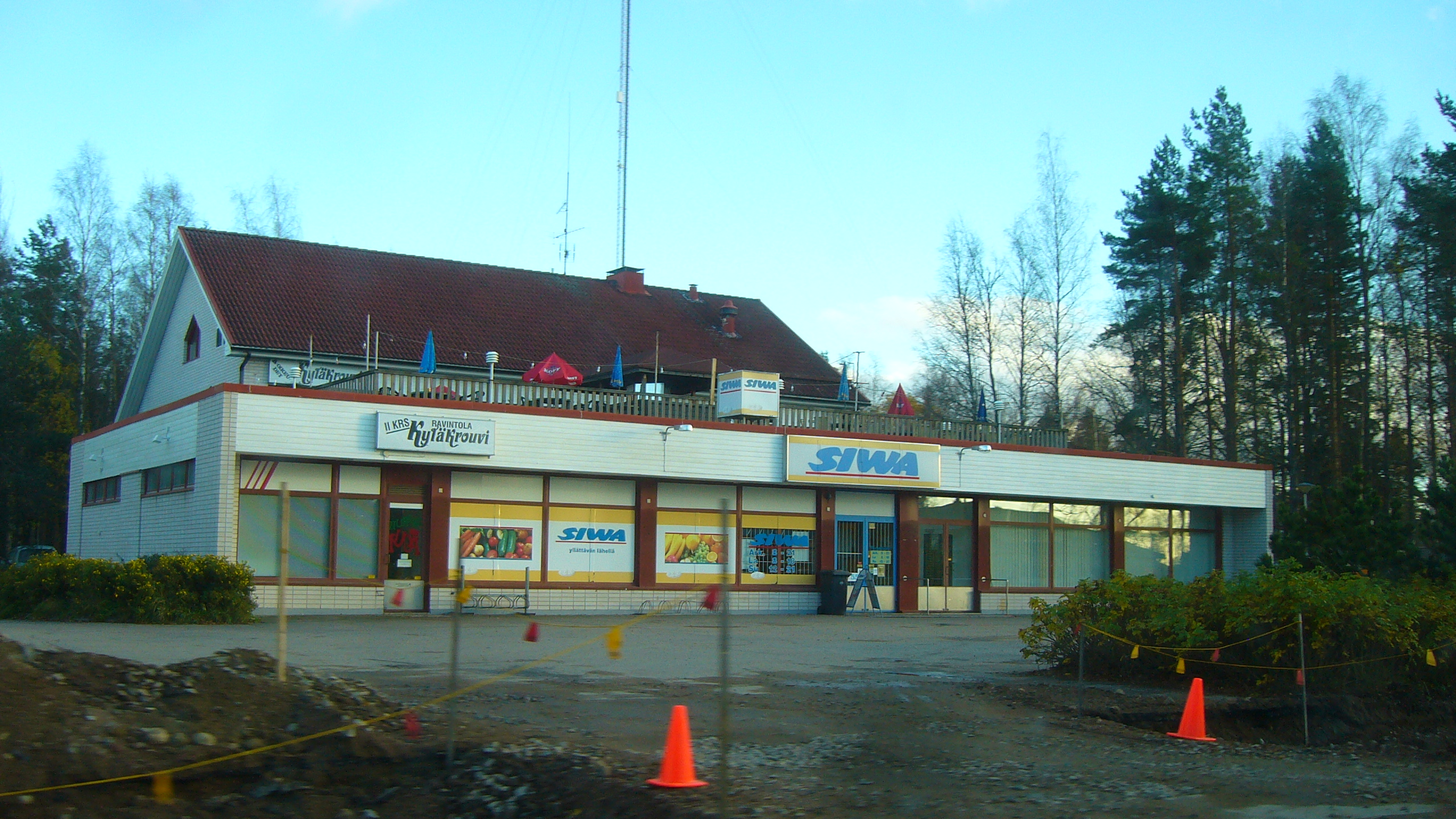 Supermarket "Siwa" in Karvia, Finland.